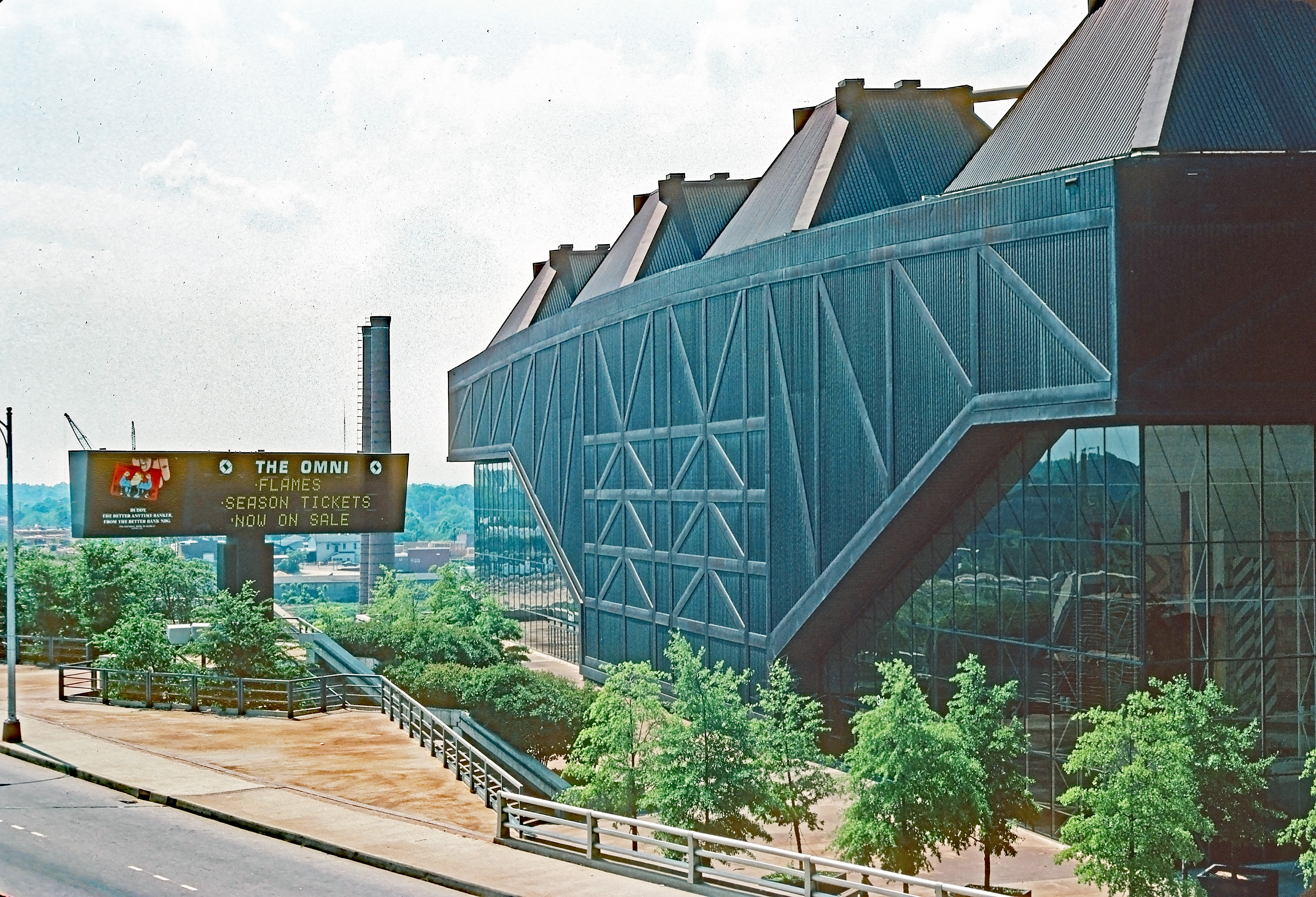 The Omni Coliseum in Atlanta, Georgia, USA (demolished). Scanned Kodachrome slide.